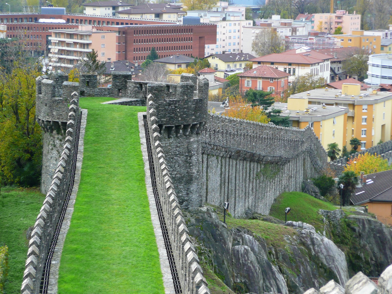 Ramparts connecting the Castelgrande to Castello di Montebello in Bellinzona, Switzerland. Listed as a UN World Heritage site.